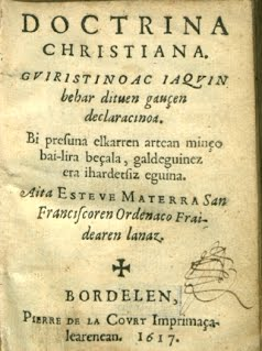 Cover of the book Dotrina christiana (first edition, 1617), of Esteve Materre.